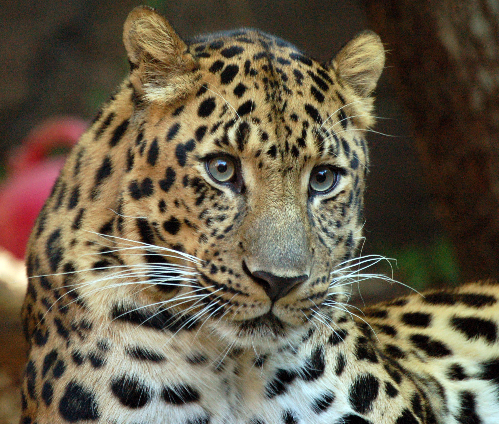 Panthera pardus orientalis, Philadelphia Zoo